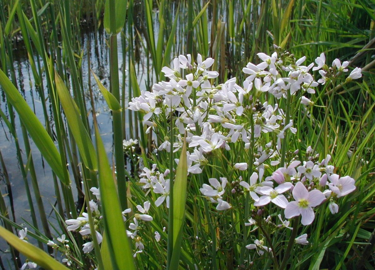 Cardamine pratensis: flowering habit.